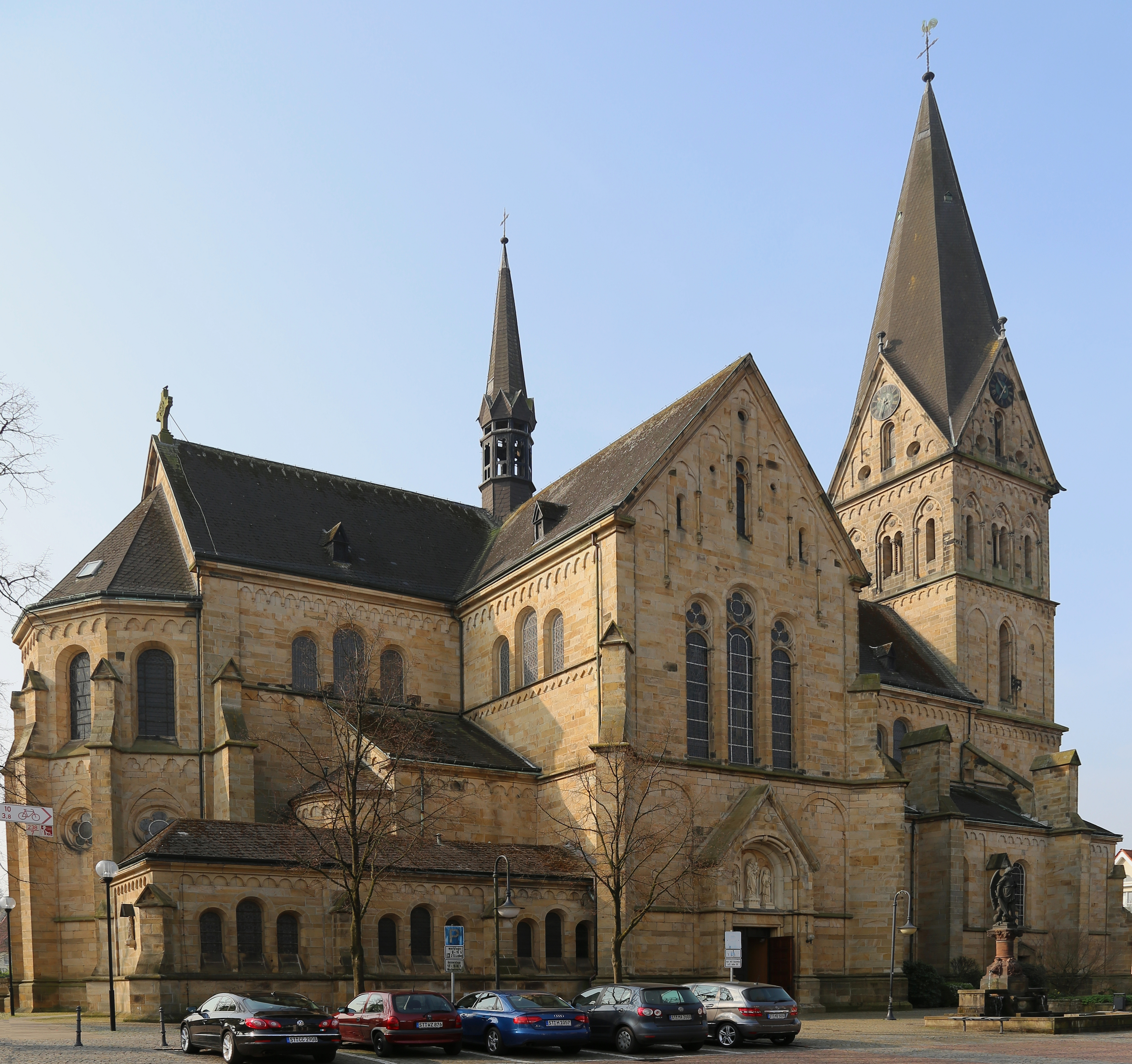 Roman Catholic parish church St. Agatha (St.-Agatha-Pfarrkirche) Mettingen, Kreis Steinfurt, North Rhine-Westphalia, Germany.